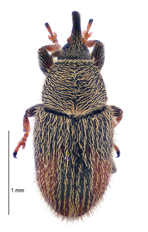 Dorsal view of a specimen of Gymnetron pascuorum photographed by Landcare Research New Zealand Ltd.